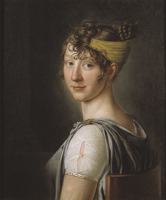 Wilhelmina Krafft (1778-1828), Swedish painter, oil painting by Per Krafft.